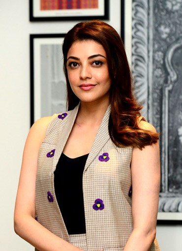 Indian actress Kajal Aggarwal on the sets of the Kannada language remake of the 2014 Hindi film Queen, during the celebration of its lead actress' Parul Yadav's birthday. Cropped from the original